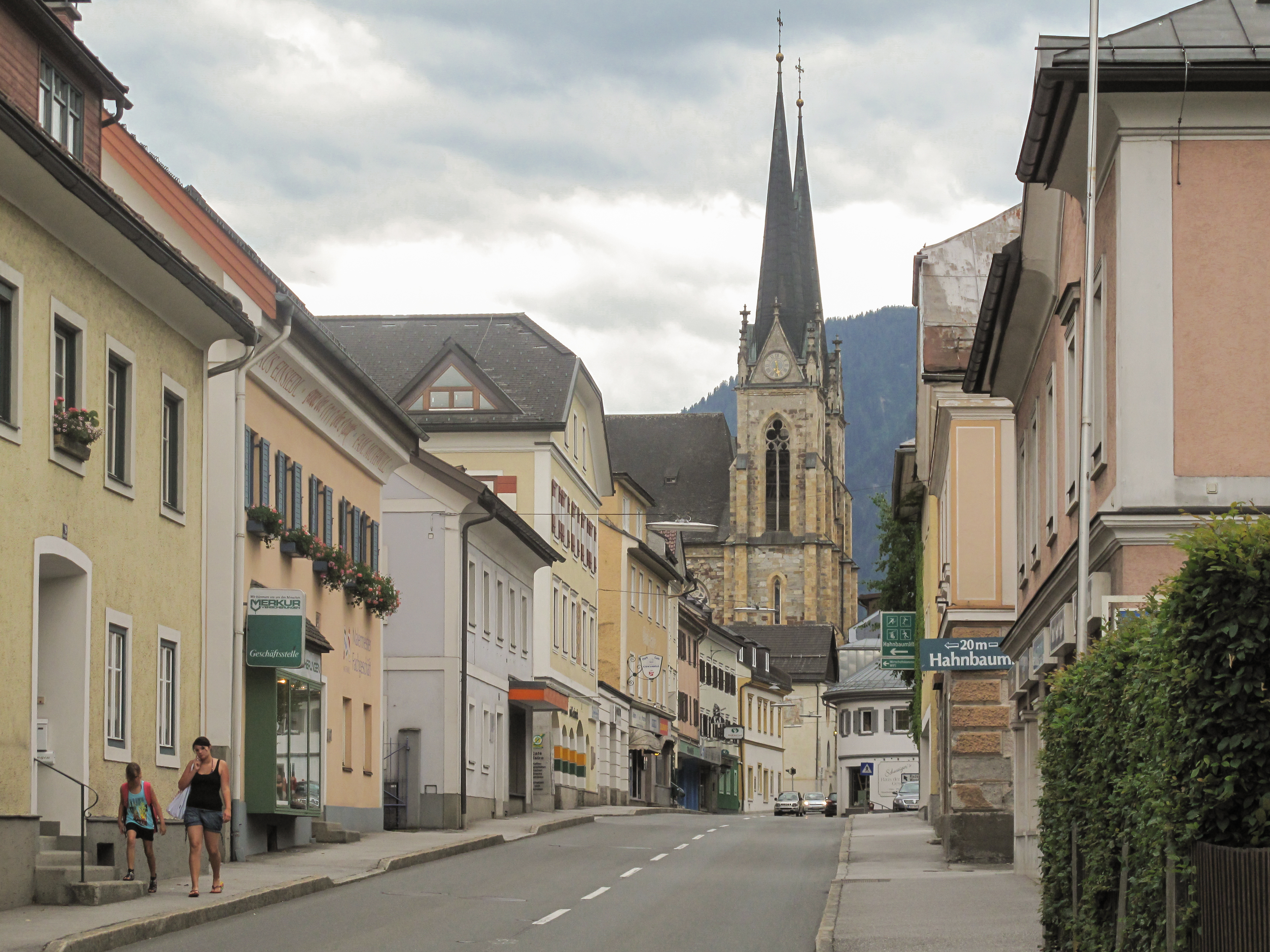 Sankt Johann im Pongau, church in the street